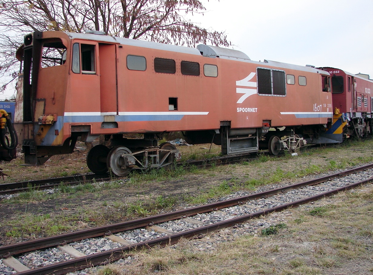 SAR Class 6E1 Series 5 E1607 Location: Koedoespoort, Pretoria, Gauteng Class 16E: At some stage in the early 1990s no. E1607 served as the A unit of a permanently coupled Class 16E locomotive pair numbered 16-335A and 16-335B.